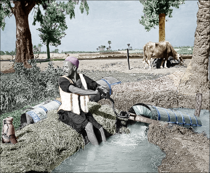 Elevation of water using an Archimedes screw.